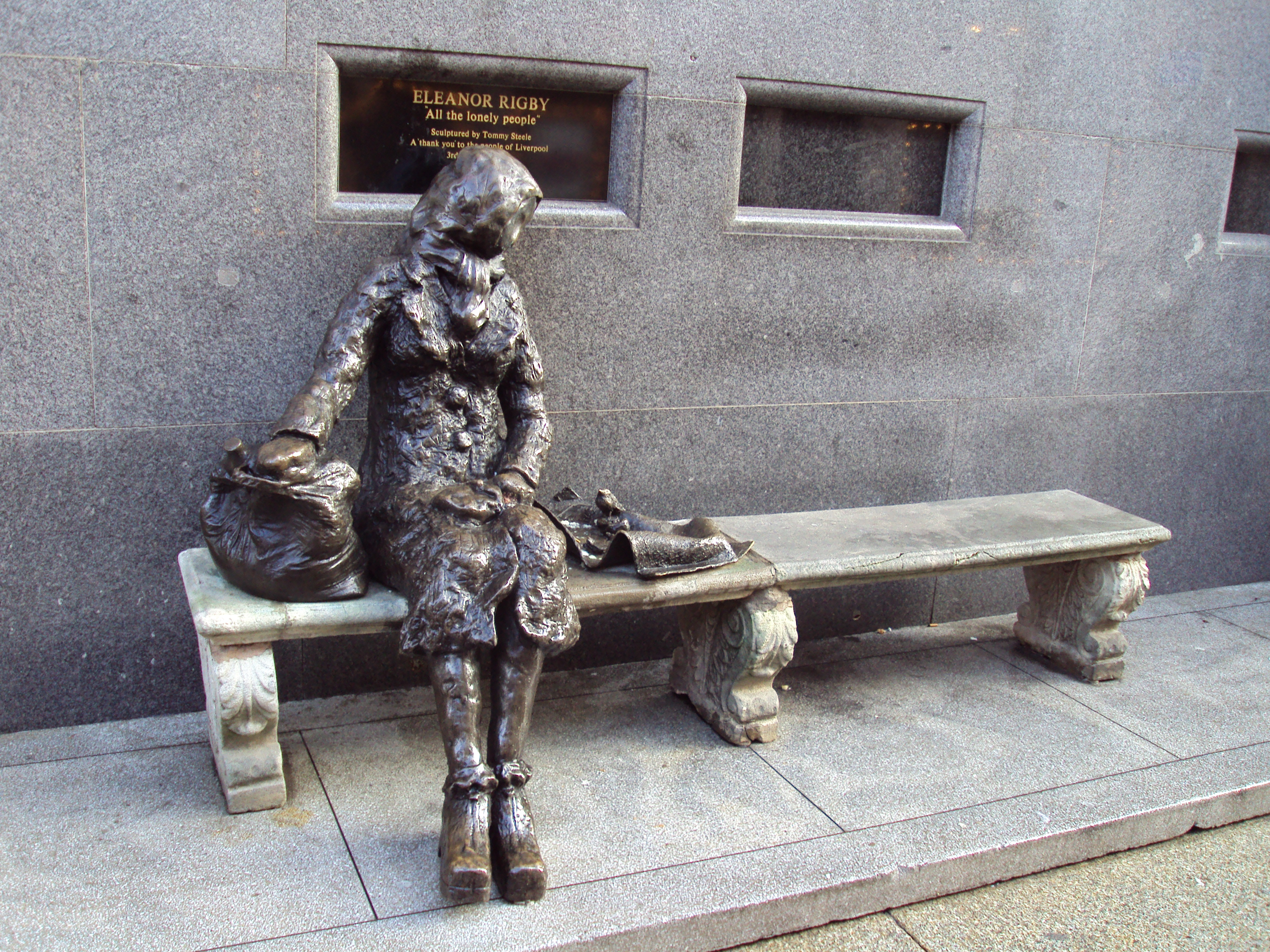 Eleanor Rigby statue, Stanley Street, Liverpool.